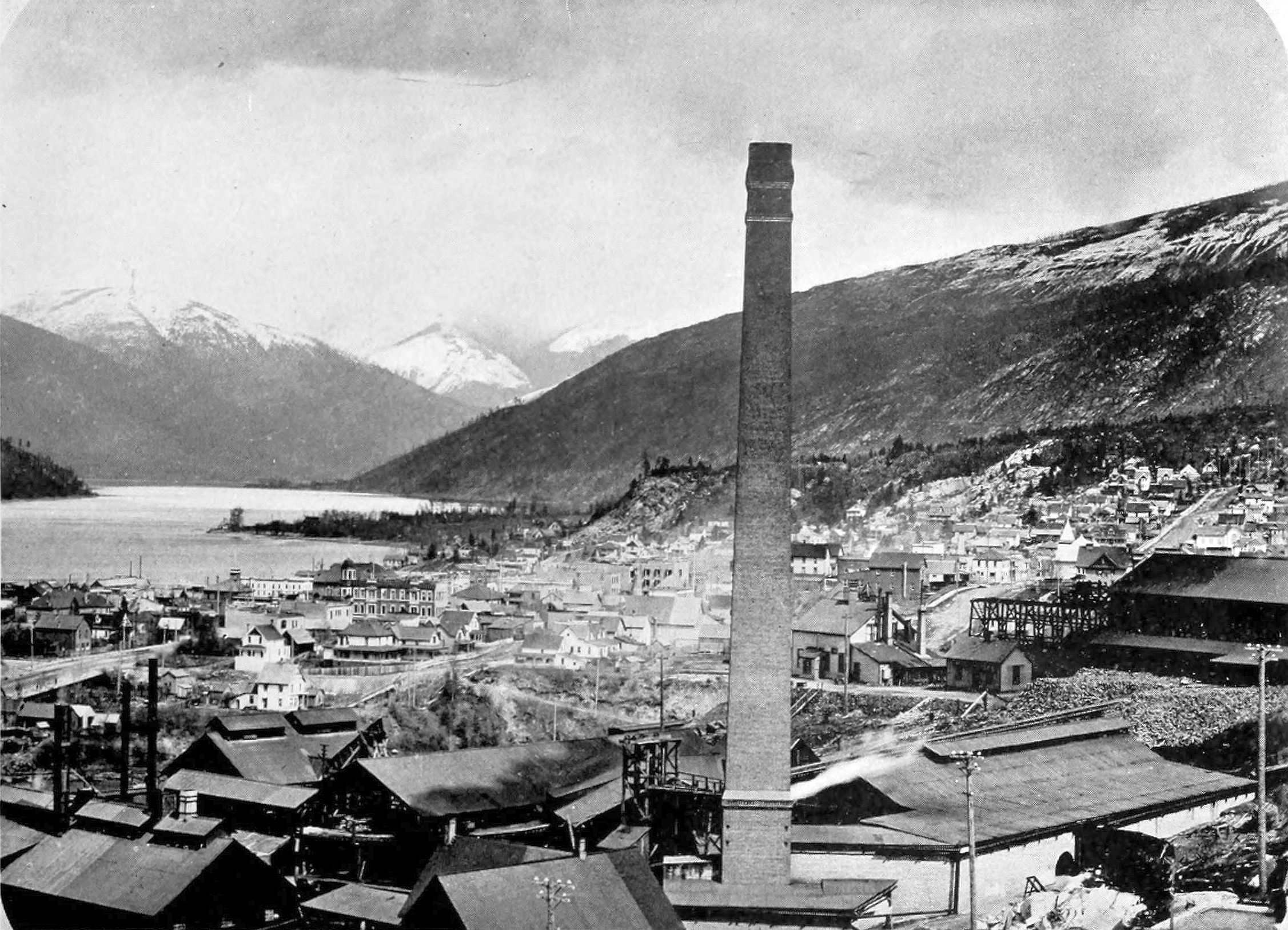 Nelson, British Columbia. Title: Mining camps of British Columbia : a souvenir of Rossland, Nelson, Greenwood, Phoenix, Grand Forks, Kaslo, Revelstoke, Cranbrook, Fernie and the Kootenay, Boundary and Crow's Nest Districts ; illustrated with fifty excellent views of typical scenes Year: 1900 (1900s) Authors: Subjects: Cities and towns Mining districts Publisher: Toronto : W.G. MacFarlane Text Appearing Before Image: The New Post Office, Nelson Text Appearing After Image: '